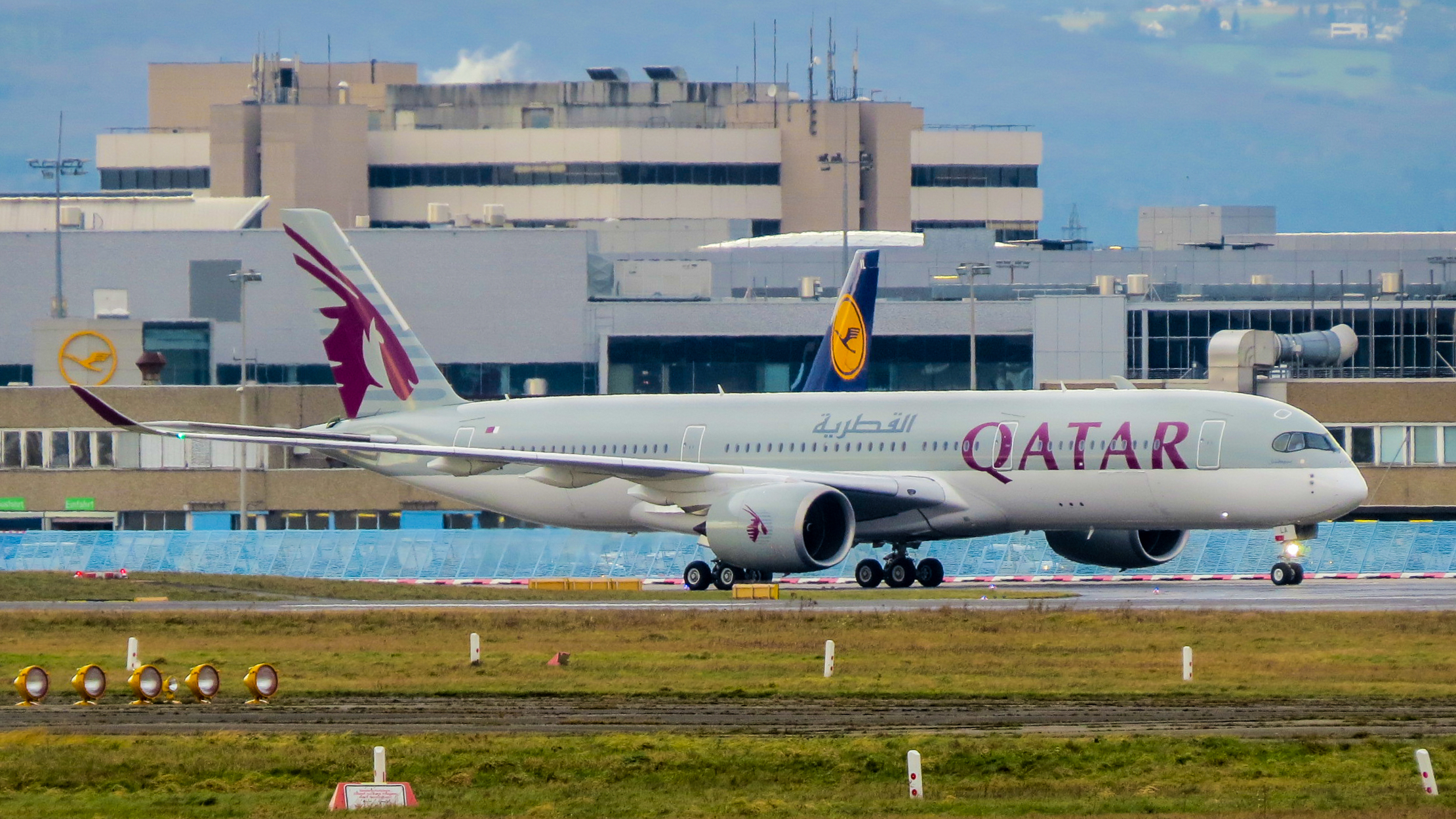 Qatar Airways Airbus A350-941 A7-ALA 15.Jan.2015 First commercial service Doha-Frankfurt